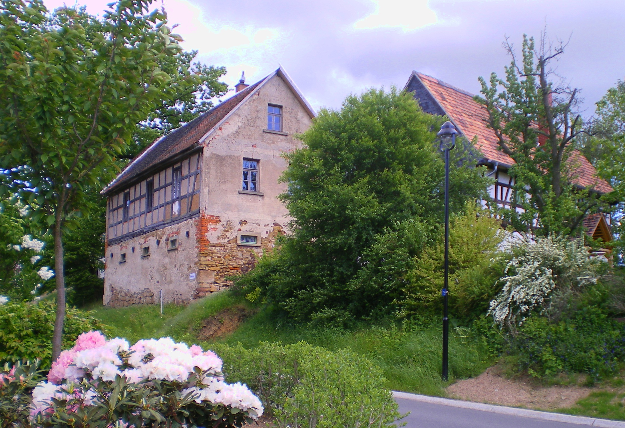 Timber framing estate in Schmölln-Selka near Gera/Thuringia in district of Altenburger Land